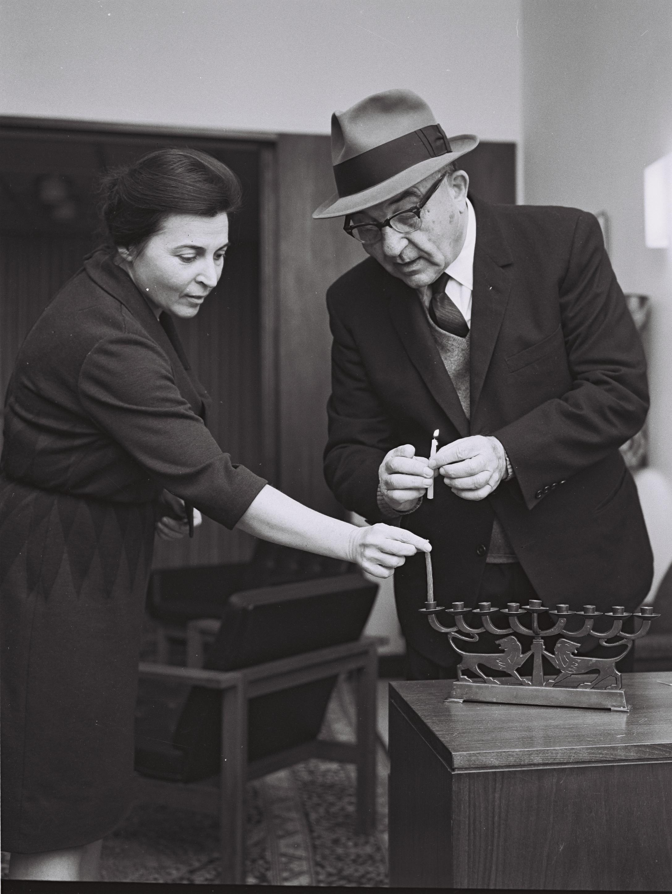 P.M. Levy Eshkol assisted by Mrs. Miriam Eshkol lighting the first Hanuka candle at home after returning from Hadassah hospital in Jerusalem